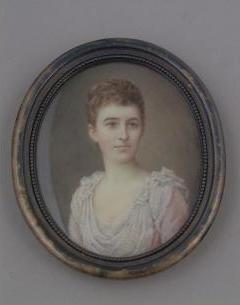 Sarah May Minturn (1865-1919) ORDER A DIGITAL IMAGESEND TO A FRIEND OBJECT NUMBER: 1905.227 ARTIST/MAKER:Fernand Paillet RELATED PERSON:Sarah May Minturn Sedgwick DATE: 1892 MEDIUM: Watercolor on ivory DIMENSIONS: Overall: 2 5/8 x 2 1/8 in. ( 6.7 x 5.4 cm ) MARKS: signed and dated: at left:"Paillet/1892" GALLERY LABEL: The subject was the eldest daughter of Robert Bowne Minturn, Jr., and Susanna (Shaw) Minturn of New York. She married Henry Dwight Sedgwick, Jr. (1861-1957), an author and critic, at St. George's Church on November 7, 1895. CREDIT LINE: Gift of the Estate of Peter Marié